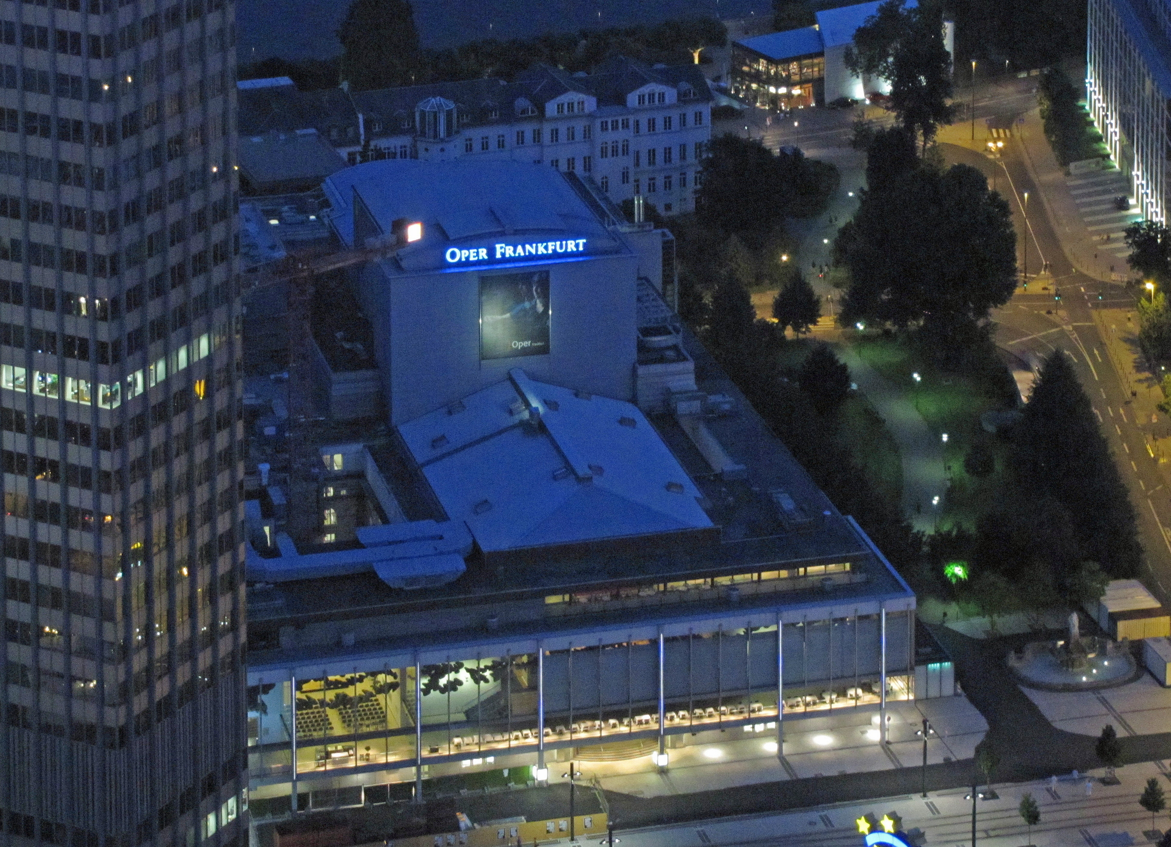 Frankfurt am Main, opera house and theatre, at "Willy-Brandt-Platz", seen from "Maintower".